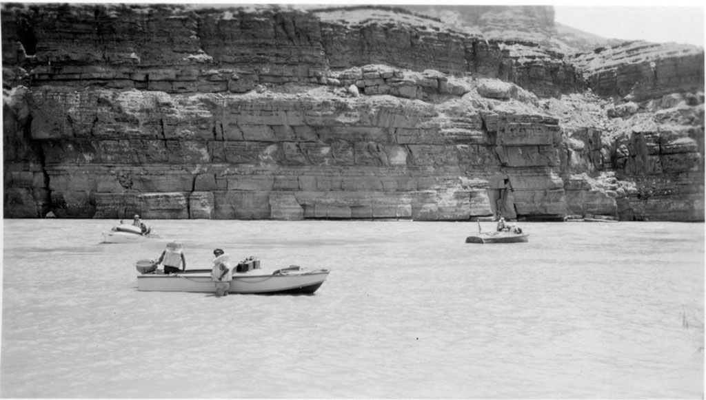 OTIS MARSTON RIVER EXPEDITION WITH FIVE MOTORBOATS PREPARING TO LEAVE FOR TRIP THROUGH GRAND CANYON TO LAKE MEAD FROM LEE'S FERRY WHERE THIS PHOTO WAS TAKEN. PHOTOGRAPHER H.C. BRYANT. CIRCA 1951.